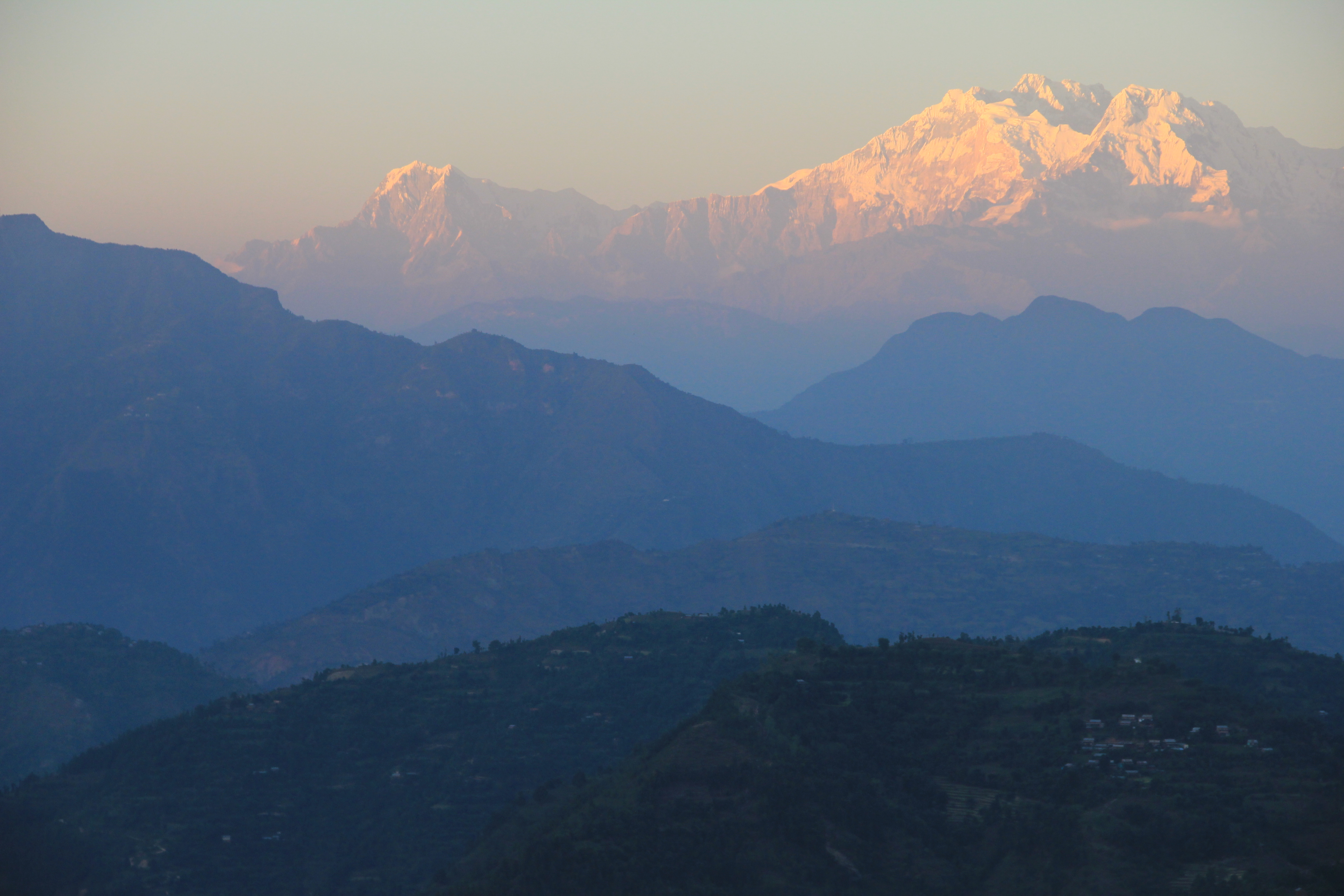 Annapurna I and Annapurna south on the right; Nilgiri South on the left.